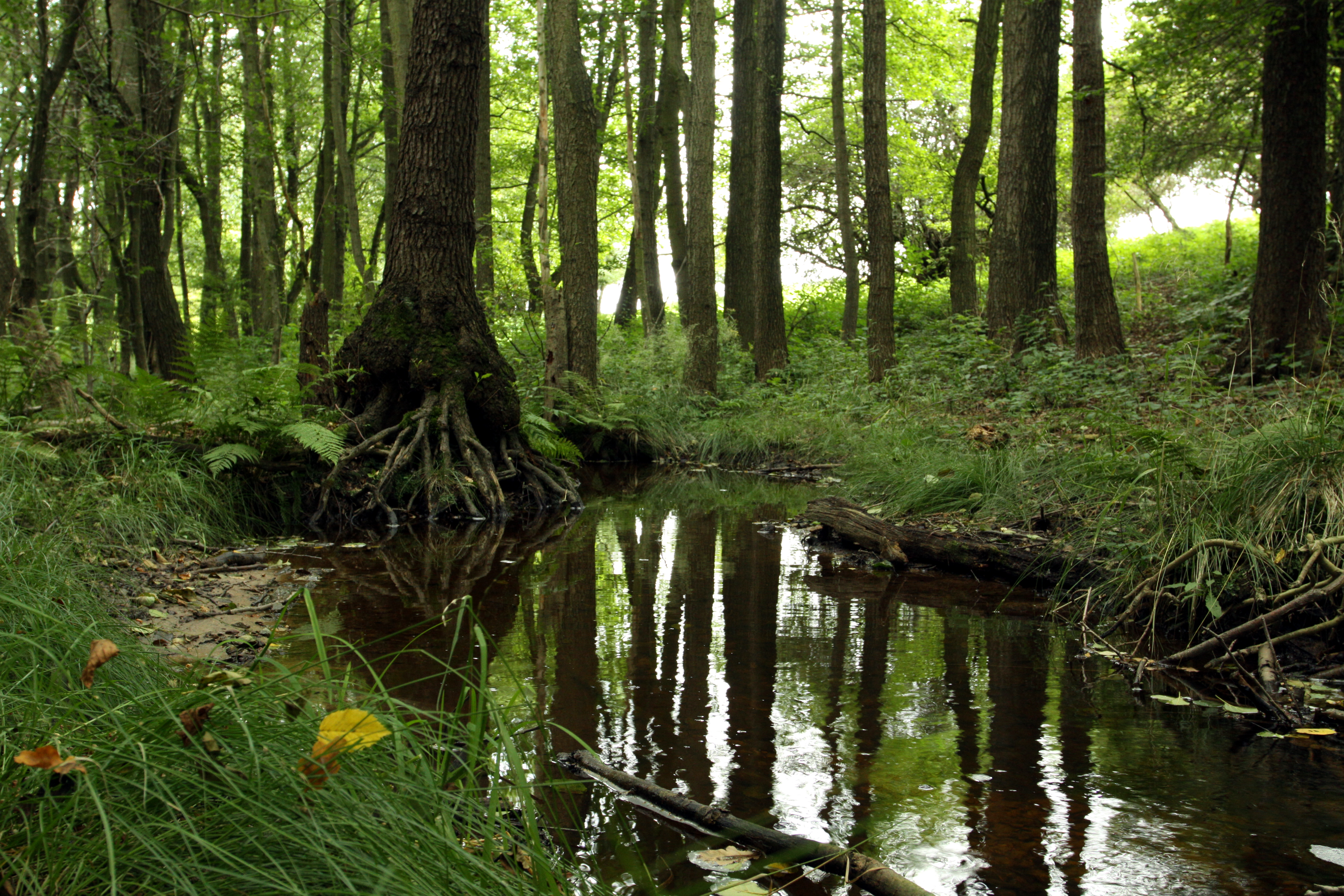 Nature reserve Libouchecké rybníčky close to Libouchec village in Ústí nad Labem District, Czech Republic